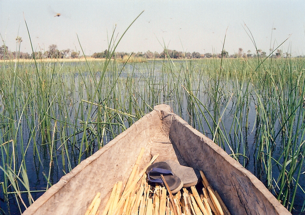 Prow of a traditional kigelia-wood makoro pushing through the reeds in the Okavango Delta, Botswana. Dragonflies dot the sky. Taken 1995, probably on Fuji film.